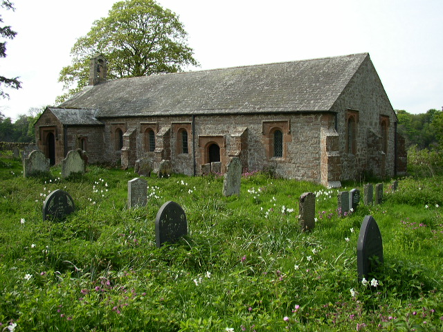 St Ninian's parish church, Brougham, Cumbria. Known locally as Ninekirks, the church down a long track, in fields above a bend in the River Eamont. The original, possibly Norman, church on this site was completely rebuilt in the 17th century for Lady Anne Clifford, who had inherited Brougham Castle as part of her family’ estates. The church remains almost unaltered since then.